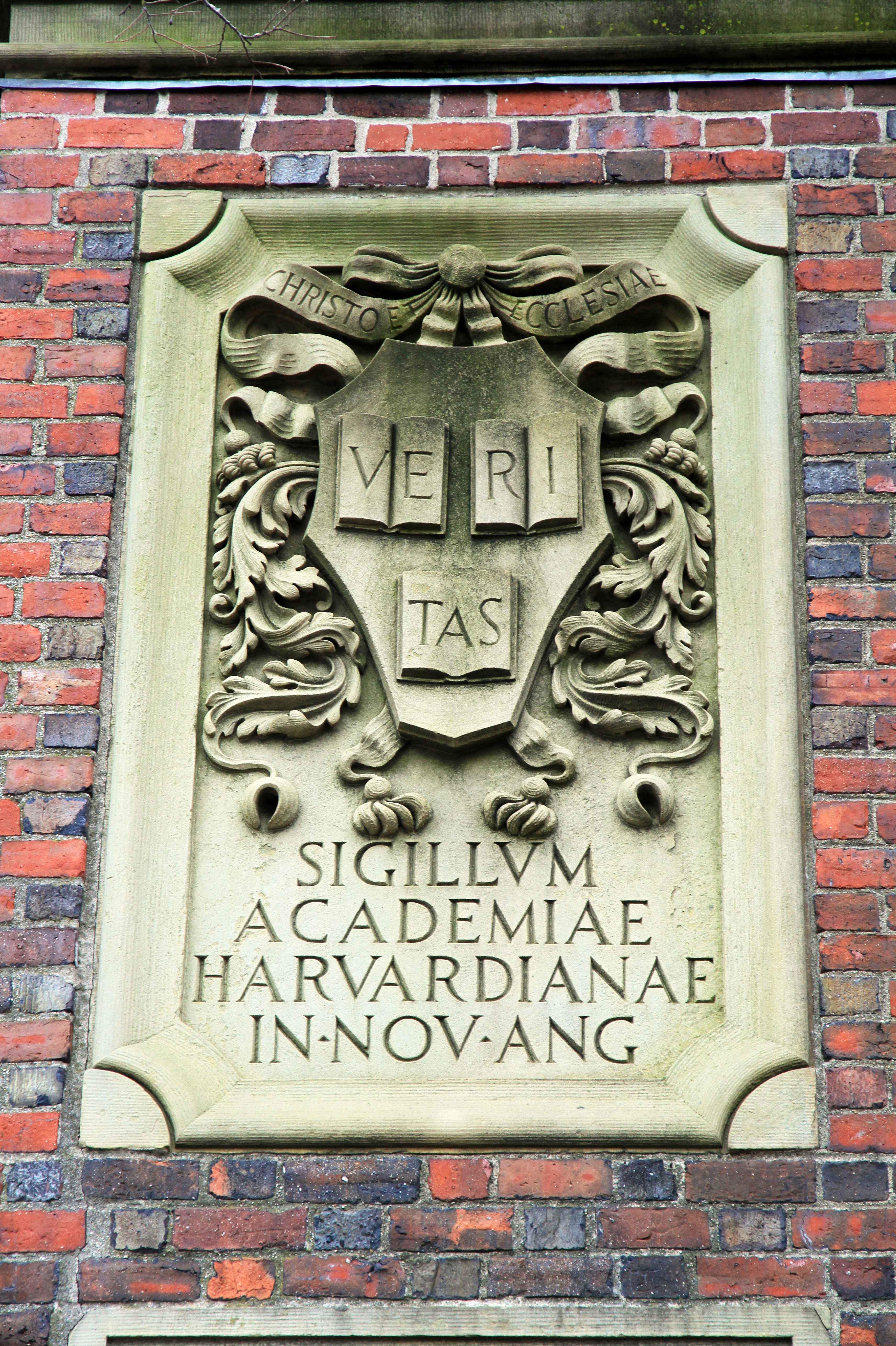 Harvard University